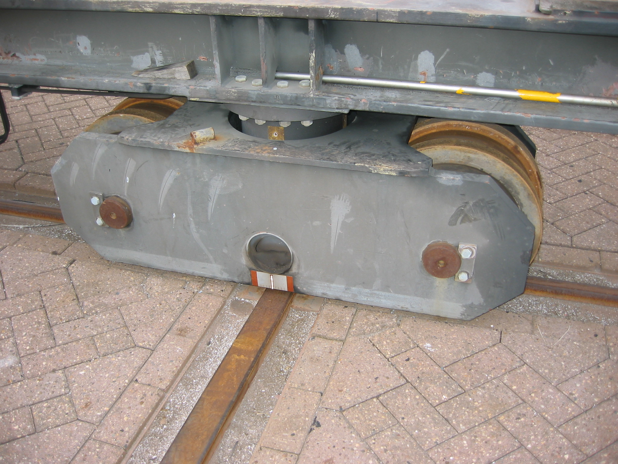 Picture of 2 wheels, cap 90 tons each